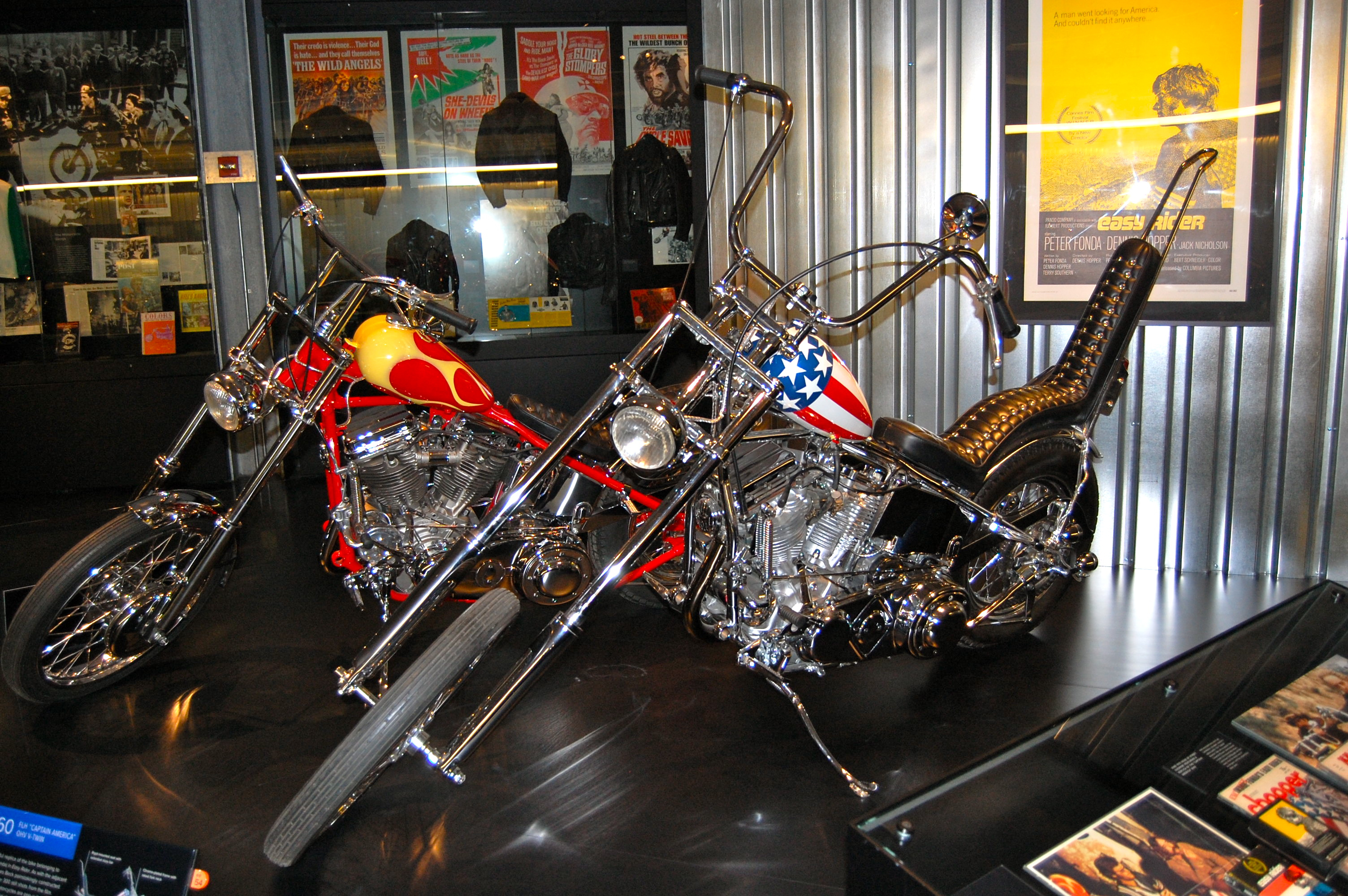 Easy Rider replica "Captain America" bike at the Harley-Davidson Museum in Milwaukee, WI.